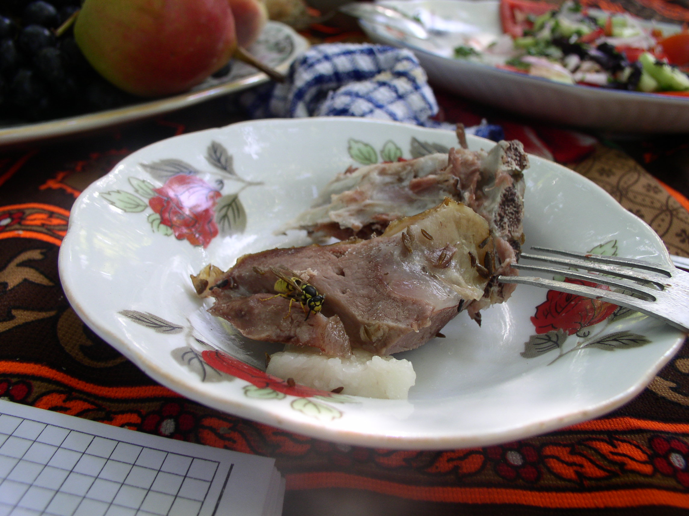 Tandyr Kabob - mutton prepared in tandyr (Uzbek dish)